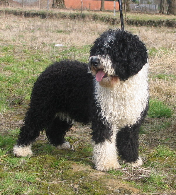 A Spanish Water Dog